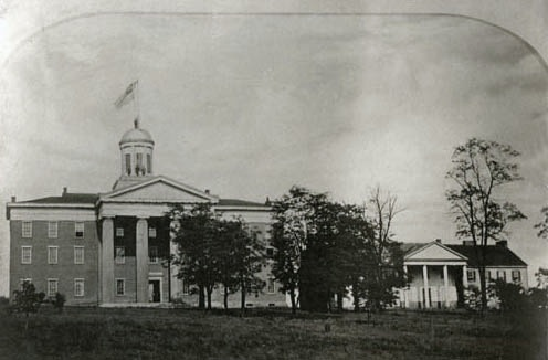 Old Main at Washington & Jefferson College circa 1850. McMillan Hall is visible on the right.